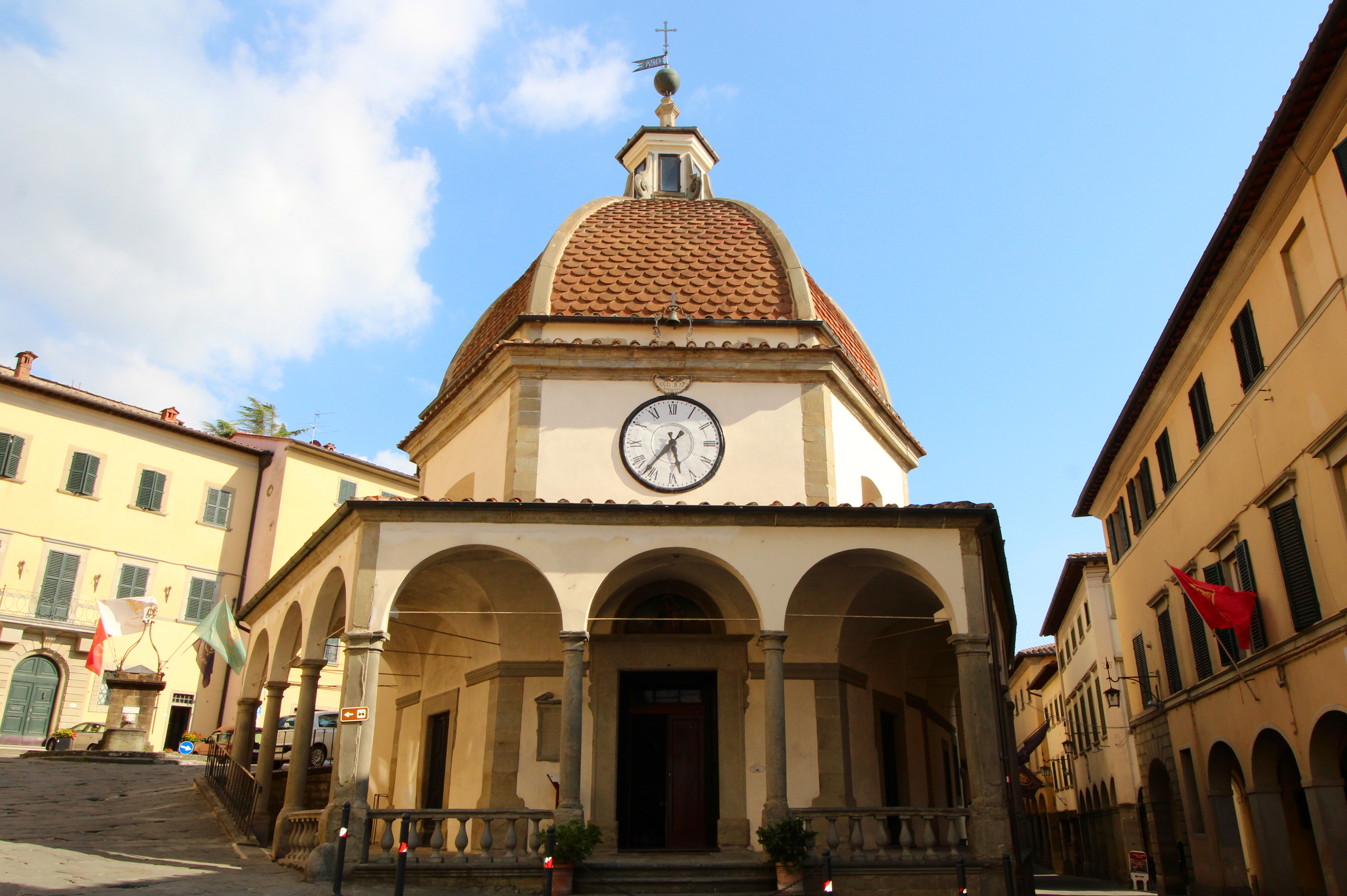 Church Madonna del Morbo, Poppi, Casentino, Province of Arezzo, Tuscany, Italy